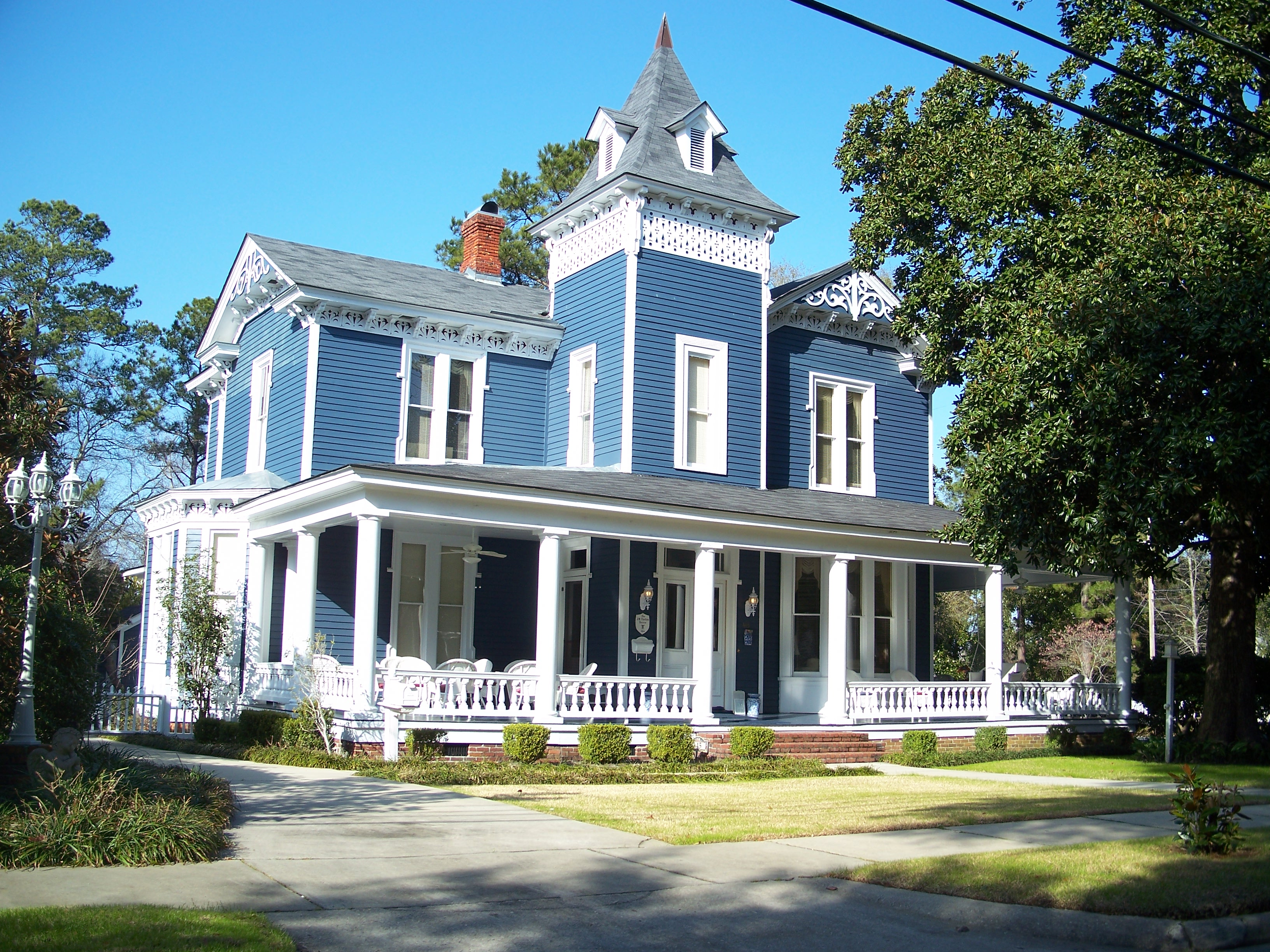 Thomasville, Georgia: Tockwotton-Love Place Historic District: House in the district. This is 445 Remington Avenue, built in 1884, operated as "The Paxton", a historic house hotel (